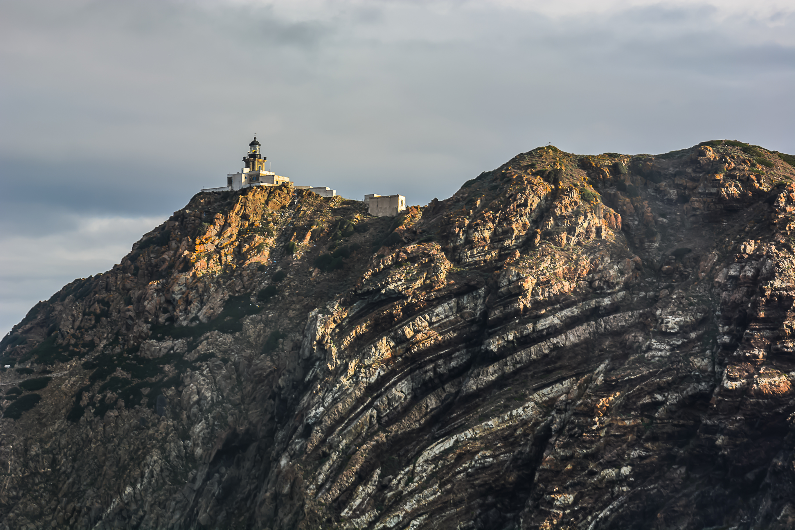 View of Galite islands The lighthouse